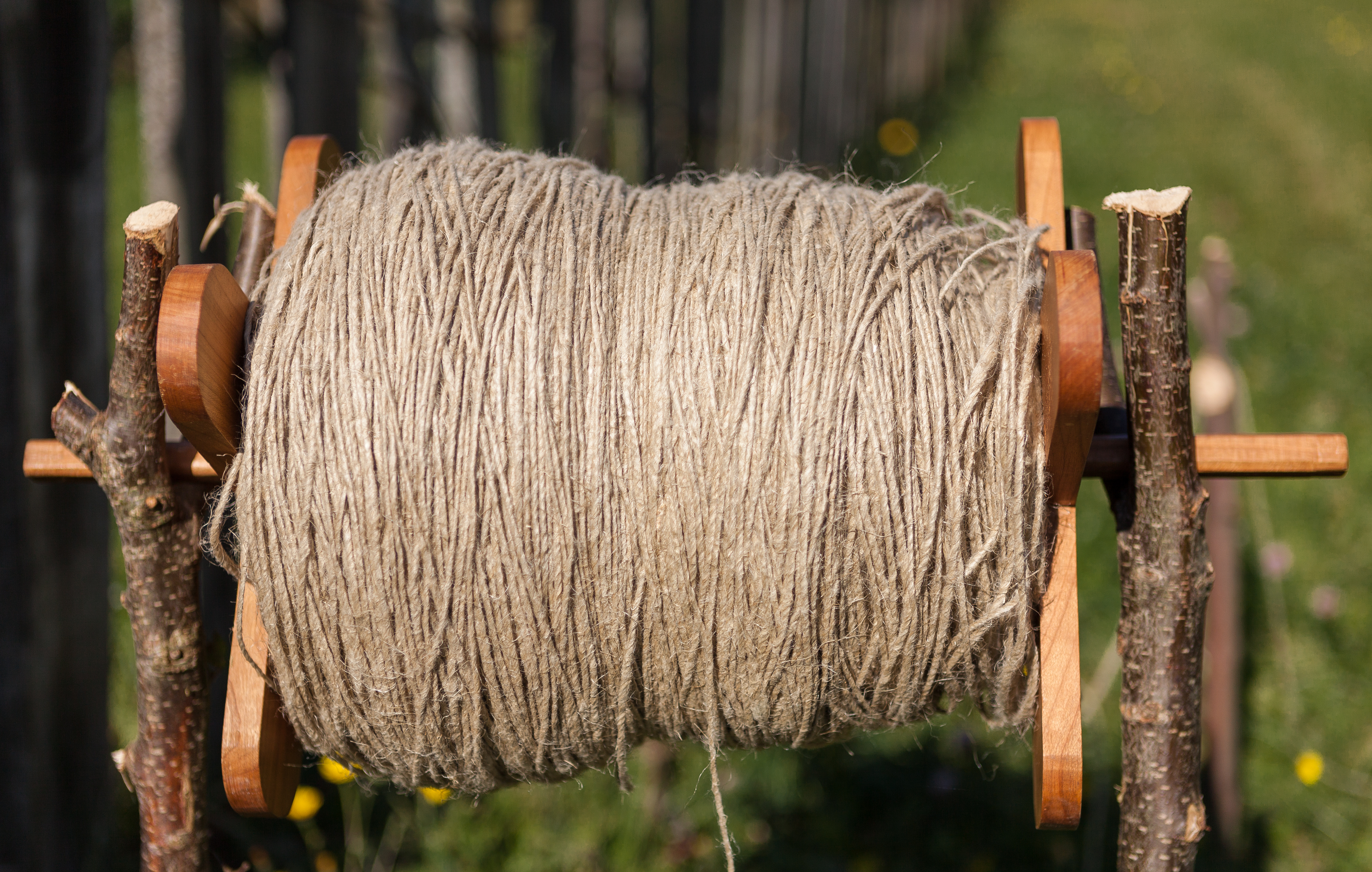 Hemp twine on a wooden winch.